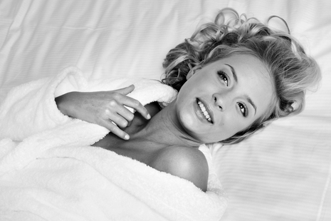 Miss Belgium 2008 Alizee Poulicek Picture by Jean-Michel Clajot (